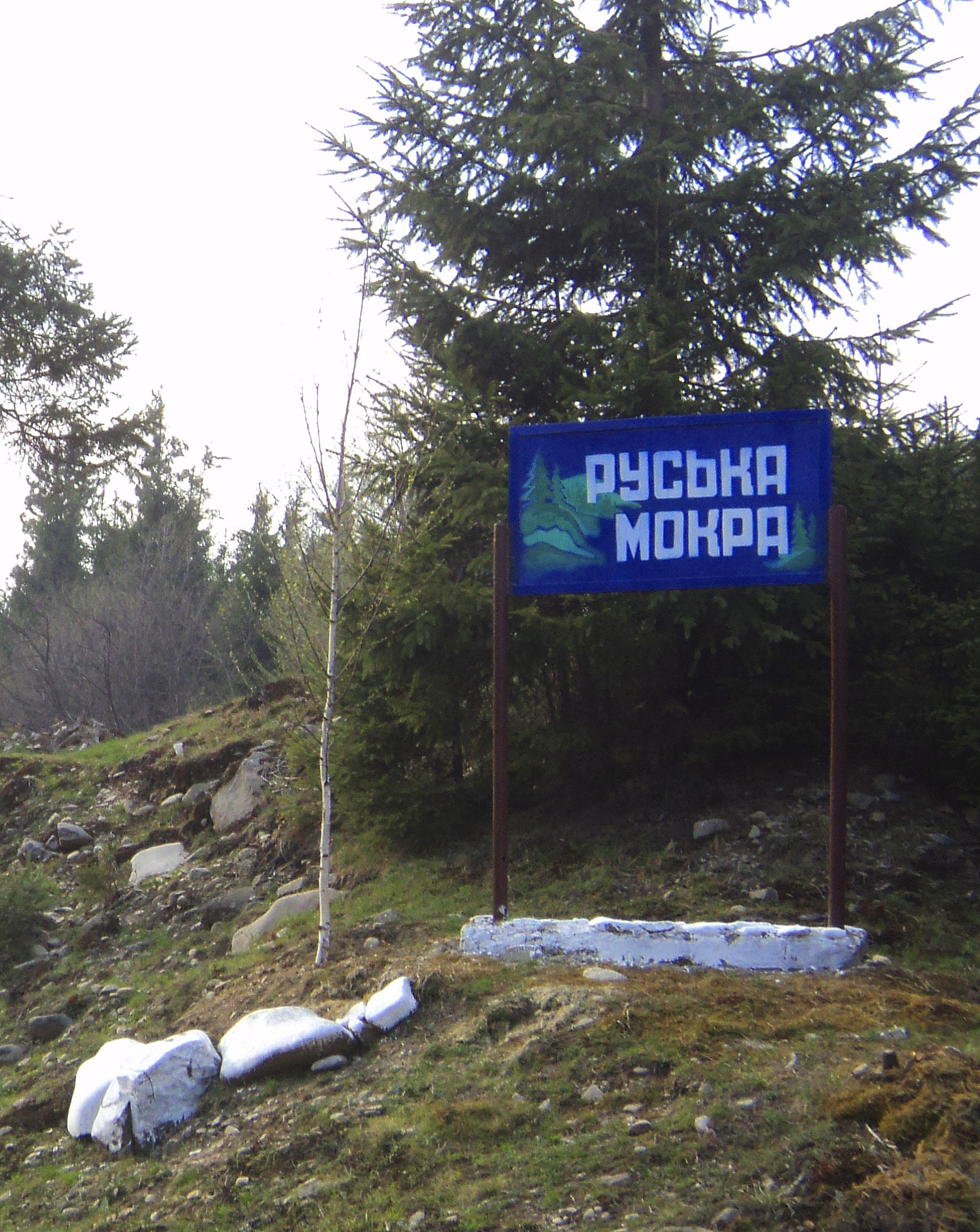 mokra